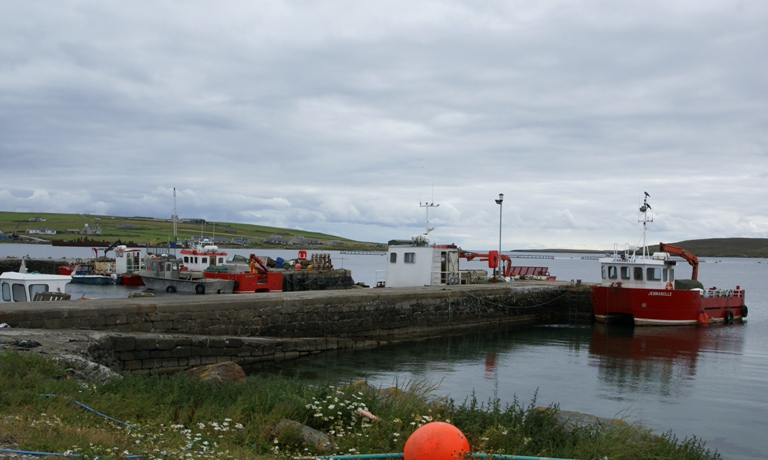 Uyeasound, Shetland, Scotland - harbour